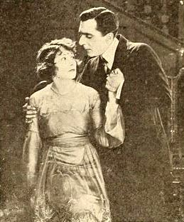 Still from the film Bringing Up Betty (1919) with Evelyn Greeley, page 1135 of the August 2, 1919 Motion Picture News.